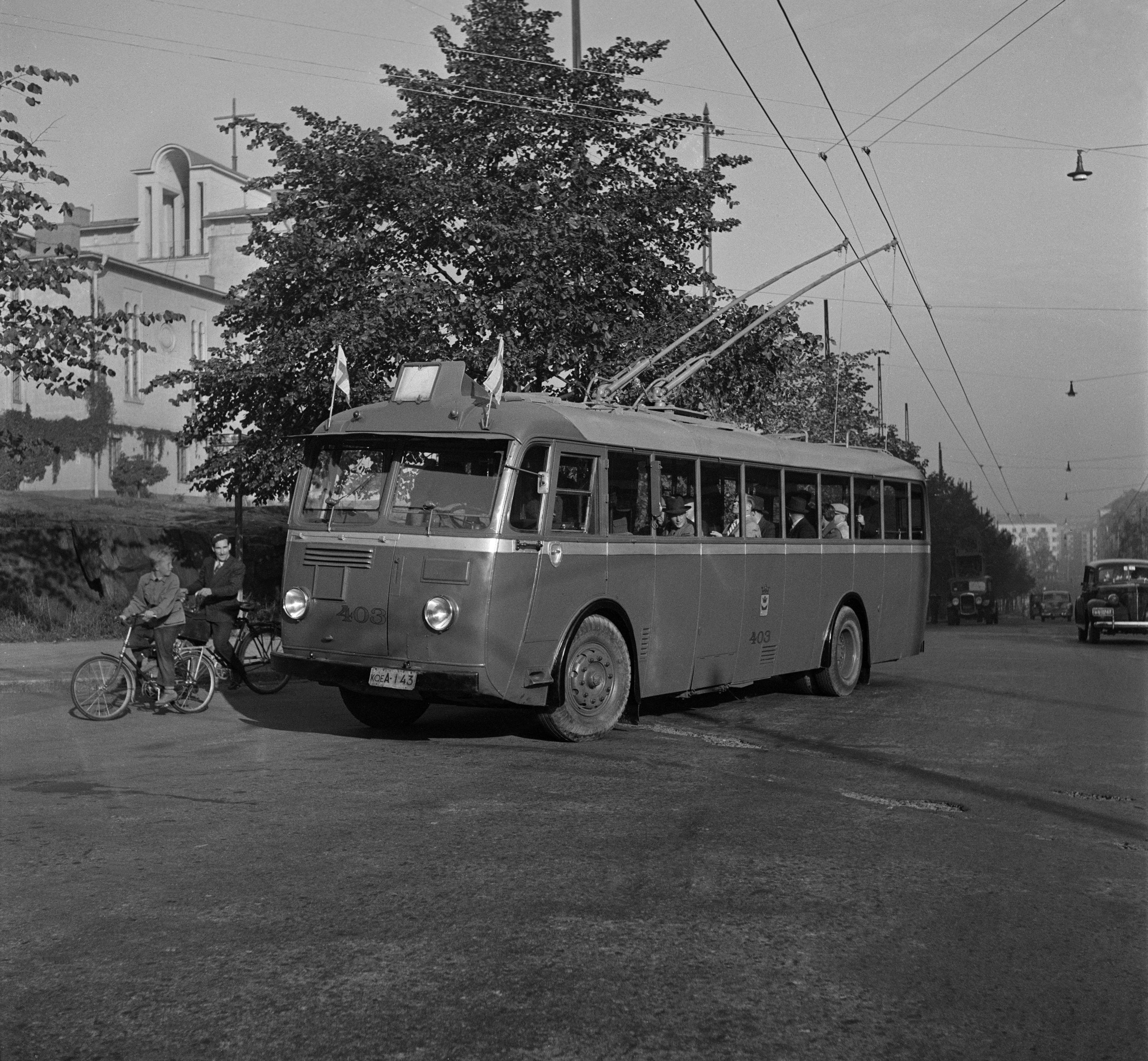 Scania Hägglund ASEA trolleybus (#403, 1941) in Topeliuksenkatu, Helsinki